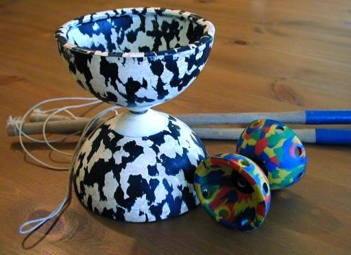 Standard and small-sized Western rubber diabolos, with control sticks in the background